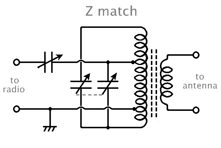 Schematic of Z match antenna tuner